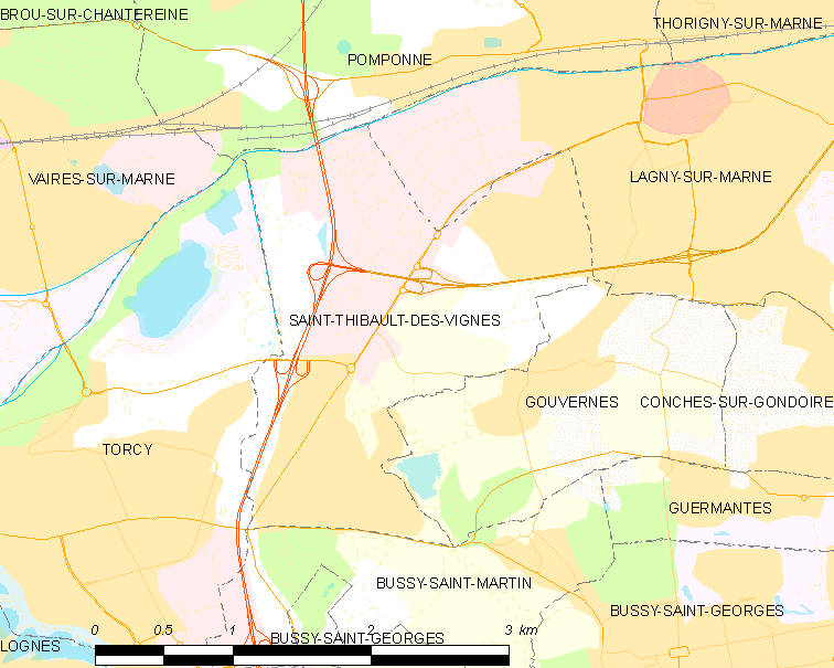 Map of French municipality Saint-Thibault-des-Vignes